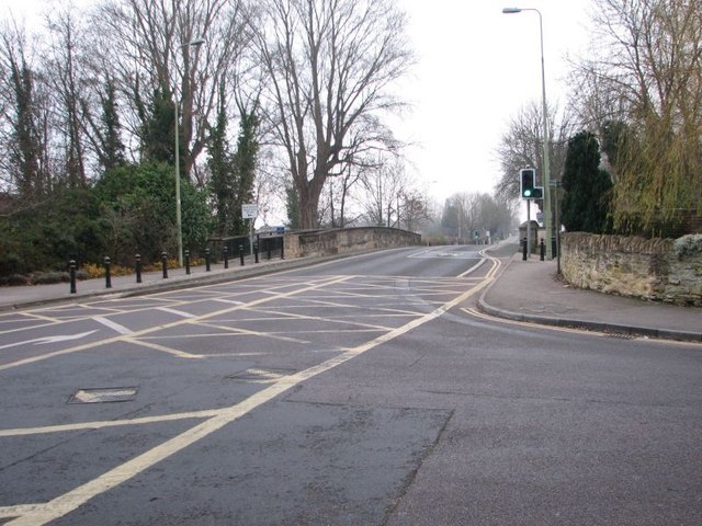 Bridge over the ditch This bridge spans Osney Ditch and the traffic lights on it are one of the bottlenecks into Oxford due to traffic turning into Osney Mead industrial estate. Ferry Hinksey road is to my right.